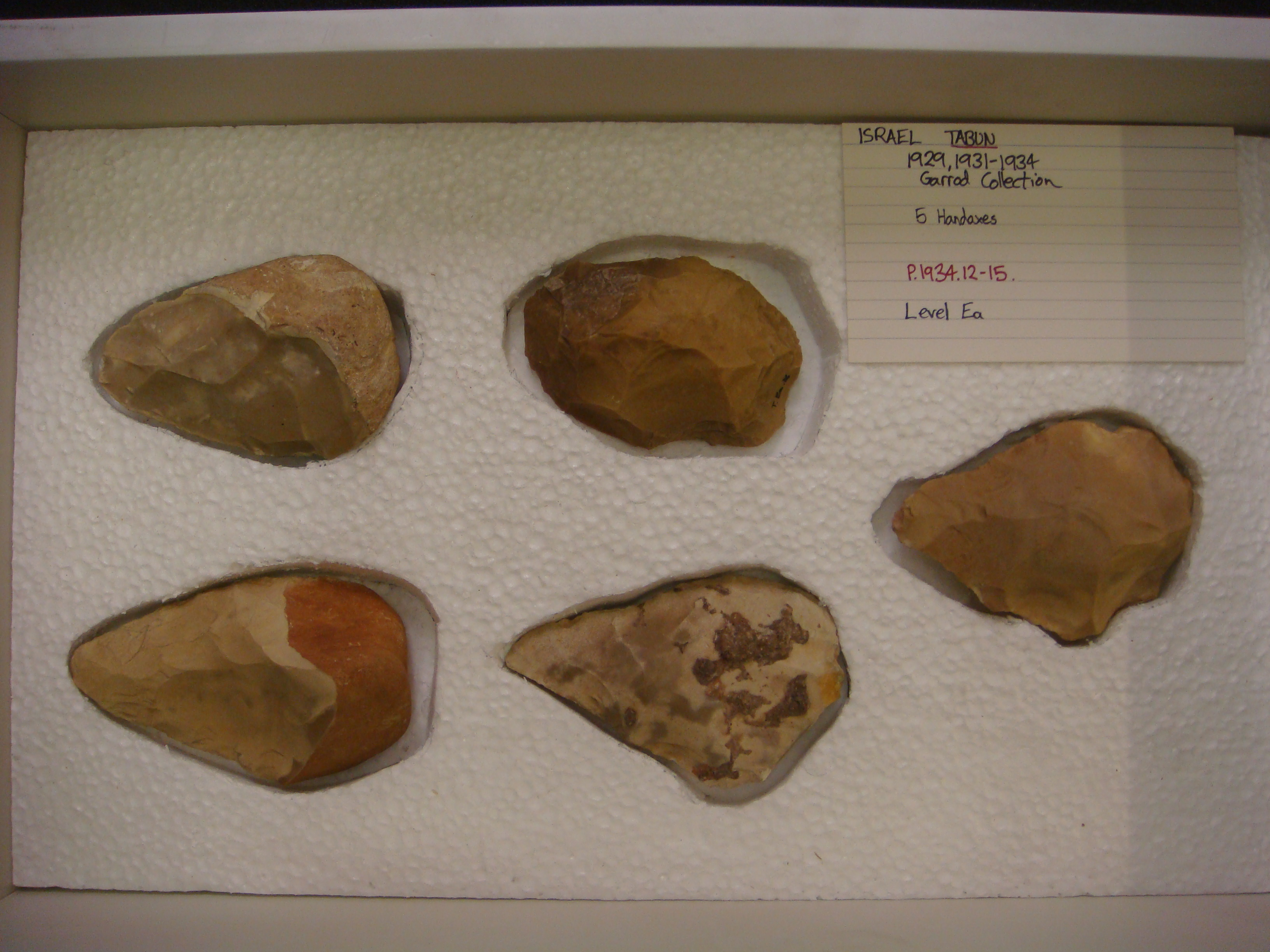 Palaeolithic flints, photo taken at British Museum Wikimedia workshop.